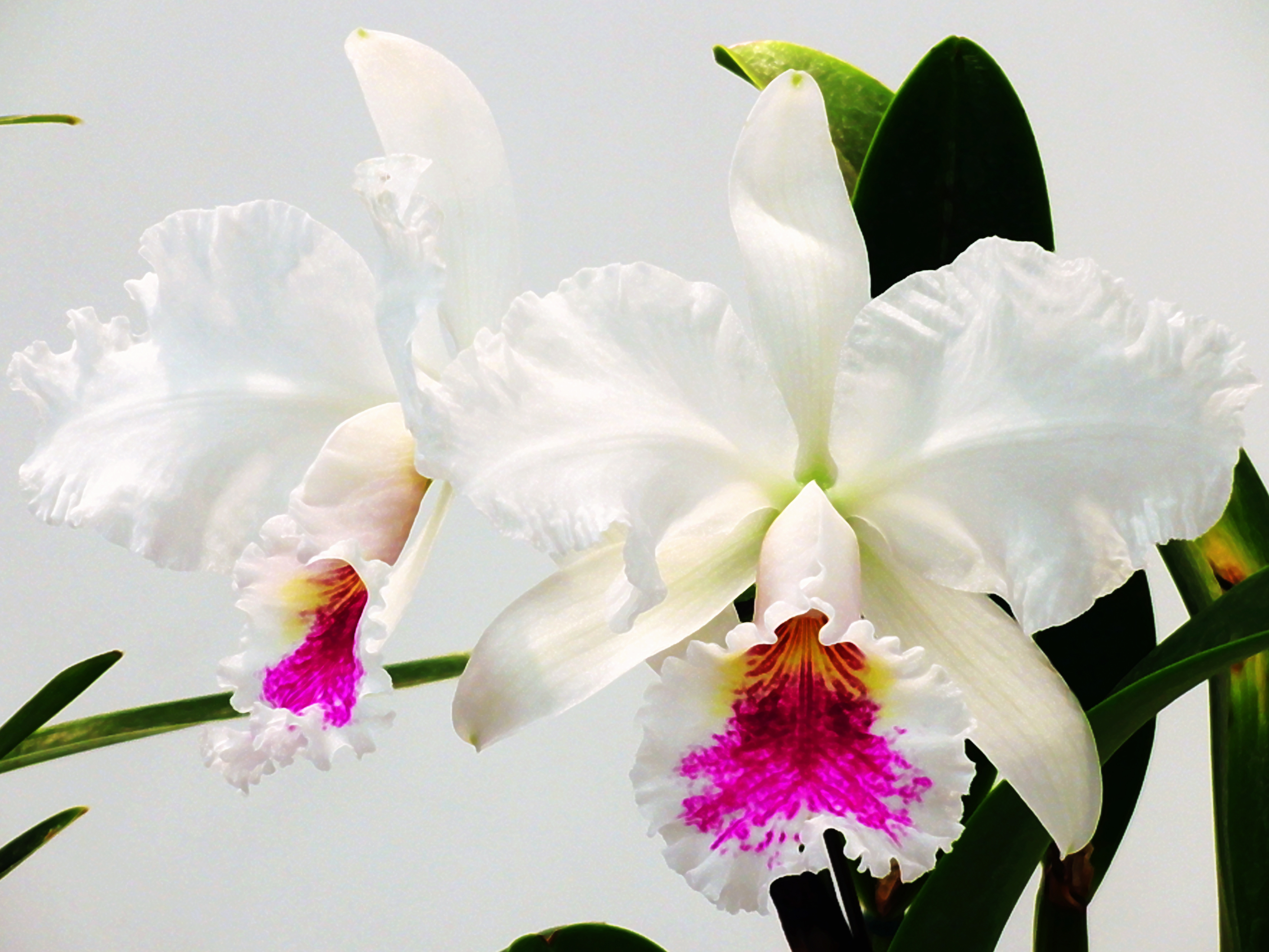 Cattleya jenmanii forma semi-alba 'K.D.Gonzallez' AM/AJOS NS (150 X 172mm) 1 stem 2 flowers. 53rd AJOS Orchid Show at Ikebukuro Sunshine City, Toshima Tokyo Japan.